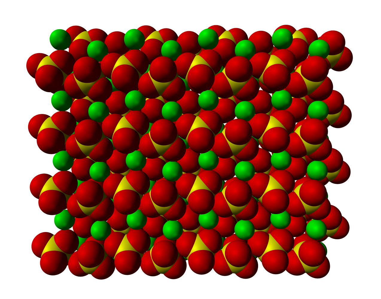 Space-filling model of part of the crystal structure of Strontium sulfate, SrSO4. Structural data from the CrystalMaker 8.1 structure library, originally from Miyake M, Minato I, Morikawa H, Iwai S I American Mineralogist 63 (1978) 506-510.